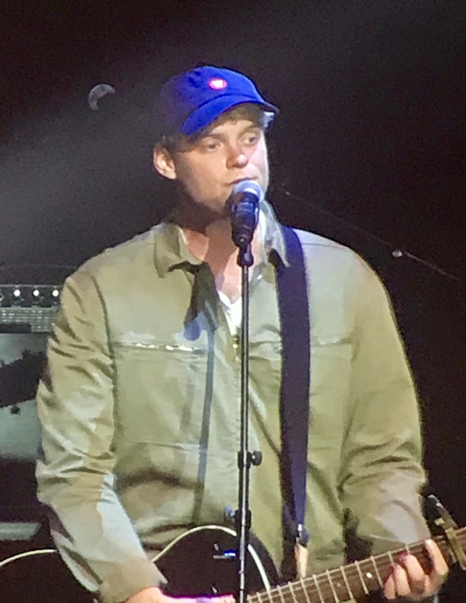 Danish singer-songwriter Hjalmer Larsen performing at Danish Beauty Awards 2019